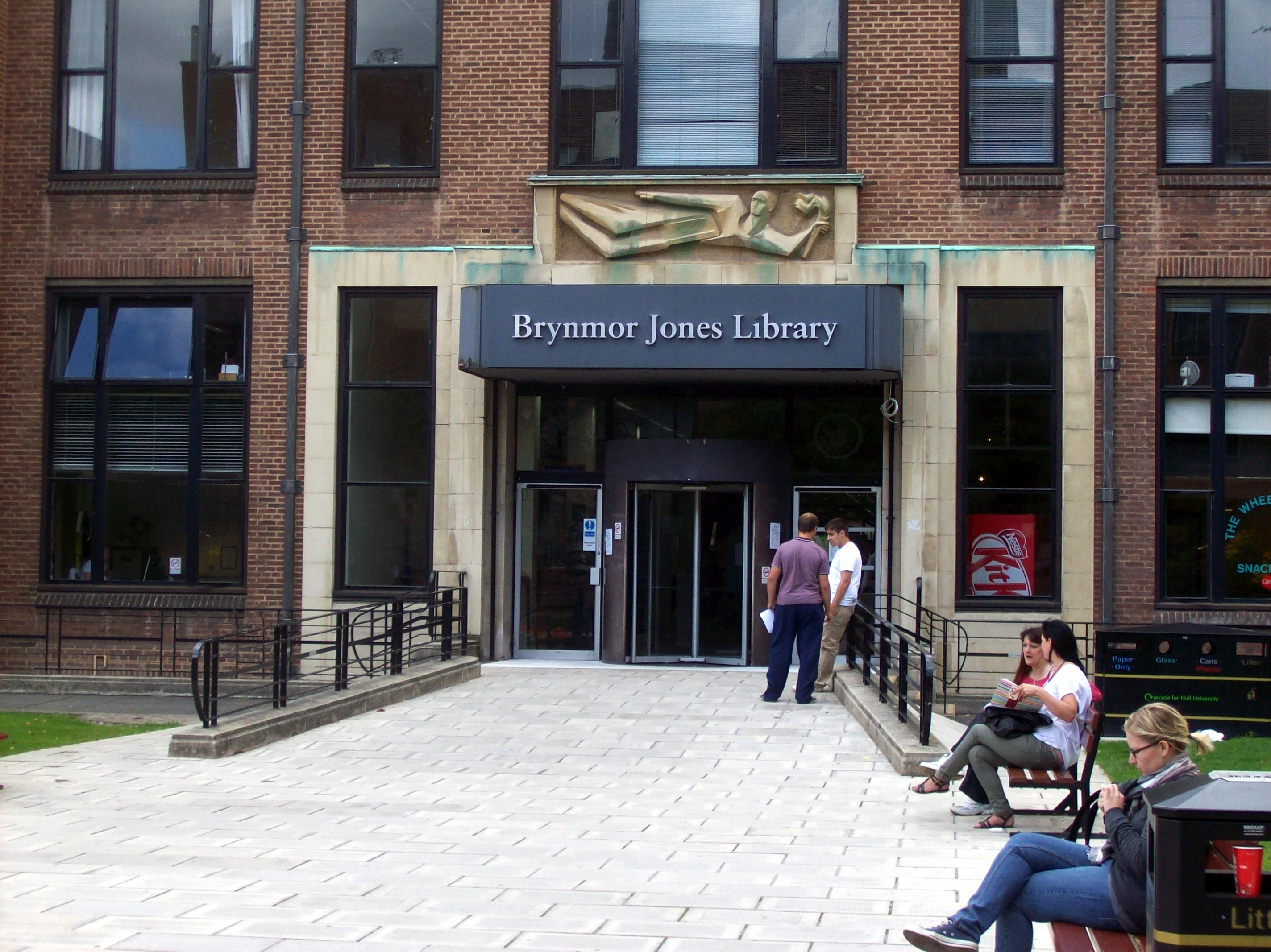 When Philip Larkin arrived in Hull from library duties in Belfast in 1955 he soon played a lead role in establishing the new purpose built library. Upon completion of the new building he penned a pamphlet describing its history from 1929 -1979 under the title of "A Lifted Study-Storehouse" (apt but ugly). He was to spend the next 30 years in this position till his death in 1985. During his tenure, Sir Andrew Motion, the future poet laureat and Larkin's best biographer lectured at the university. Interviewed for the Observer newspaper in 1979 Larkin commented "Librarianship suits me.. and it has just the right blend of academic interest and administration that seems to suit my particular talents, such as they are" "By Day , a lifted study-storehous; night Converts it to a flattened cube of light. Whichever's shown, the symbol is the same; Knowledge; a university; a name".